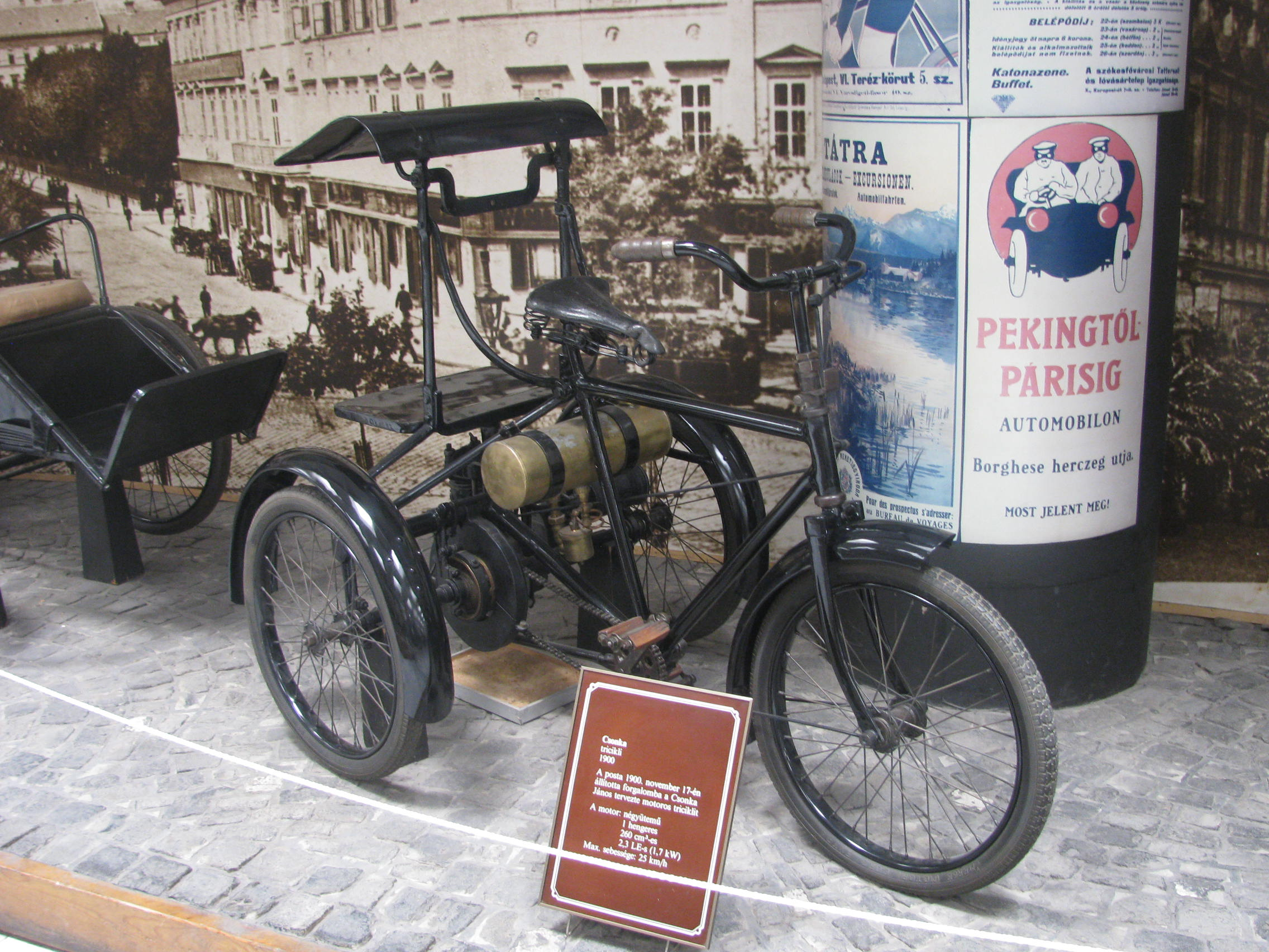 Csonka motorised three-wheeler from 1900. The engine is four-stroke, 260-ccm single-cylinder type and its maximum output is 1.7 kW (2.3 hp). The top speed of the vehicle is 25 km/h.